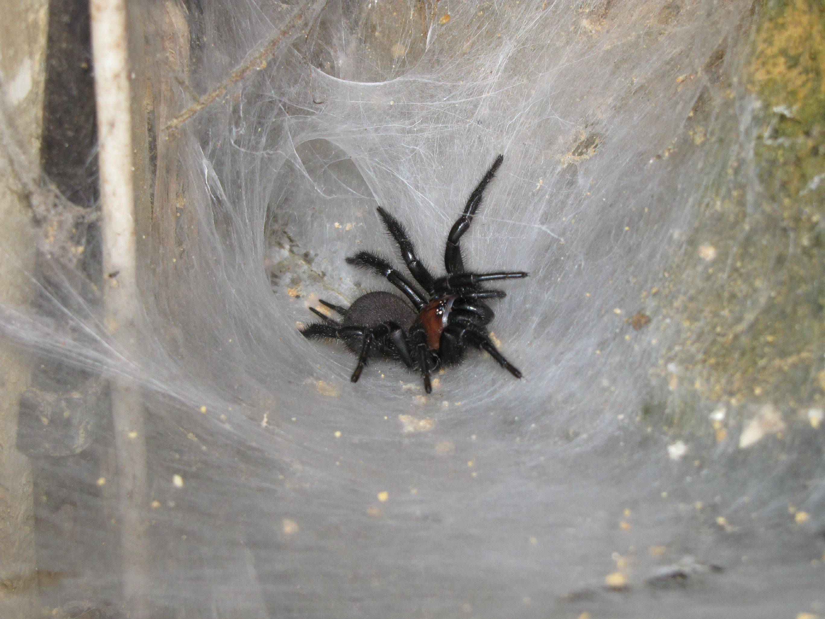 Porrhothele antipodiana New Zealand Black Tunnelweb Spider in web, Lower Hutt, New Zealand